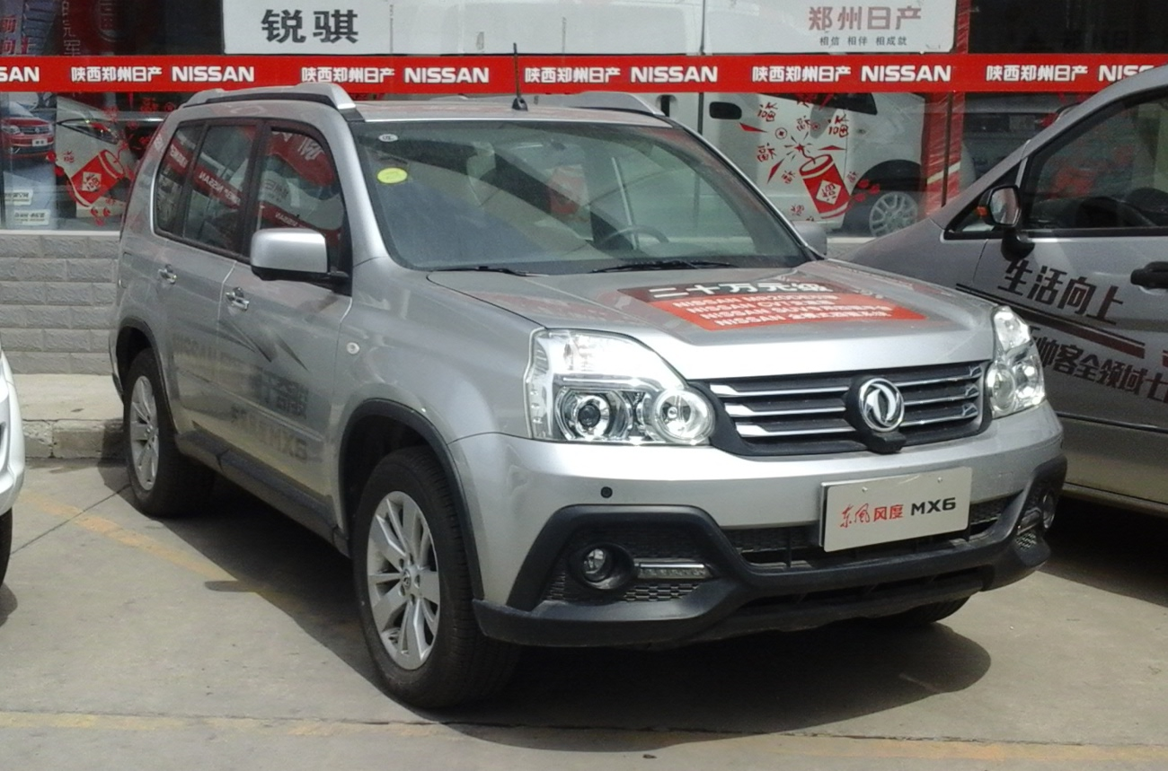 Dongfeng Fengdu MX6 photographed in Xi'an, Shaanxi province, China.